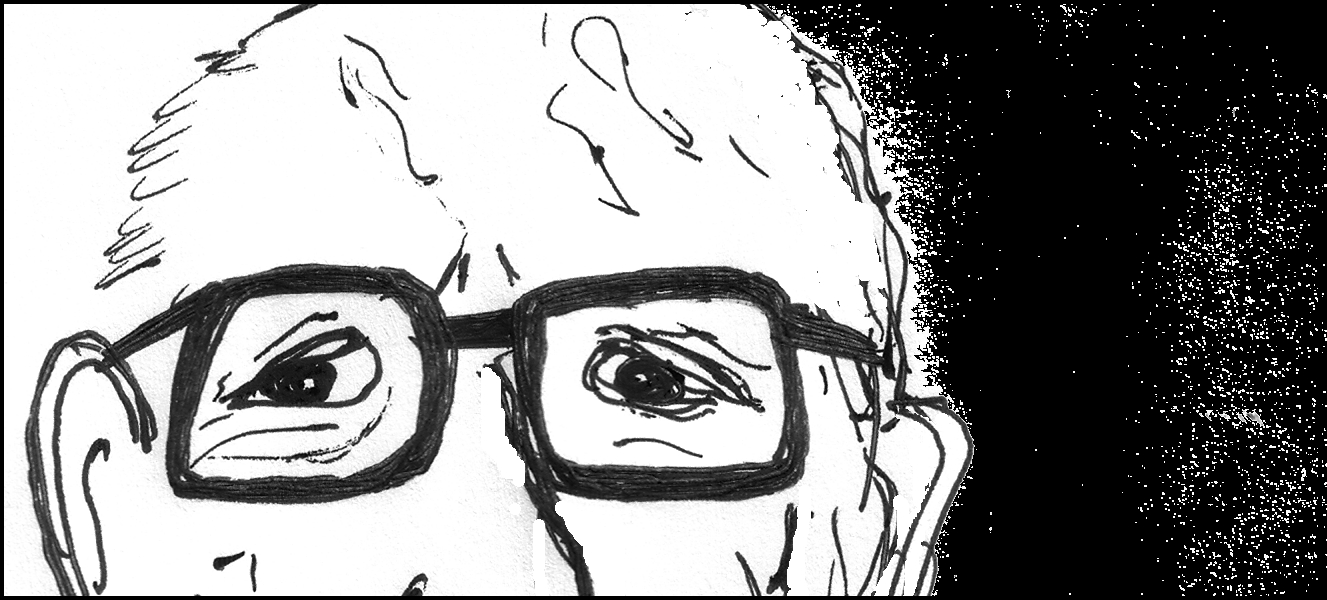 Sketch of Claude Lévi-Strauss